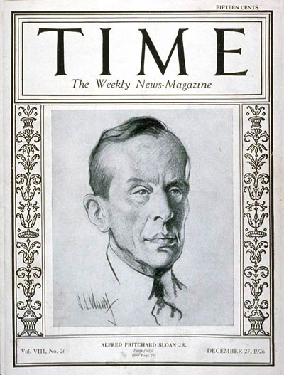 Cover of Time Magazine (December 27, 1926) w/ Alfred P. Sloan